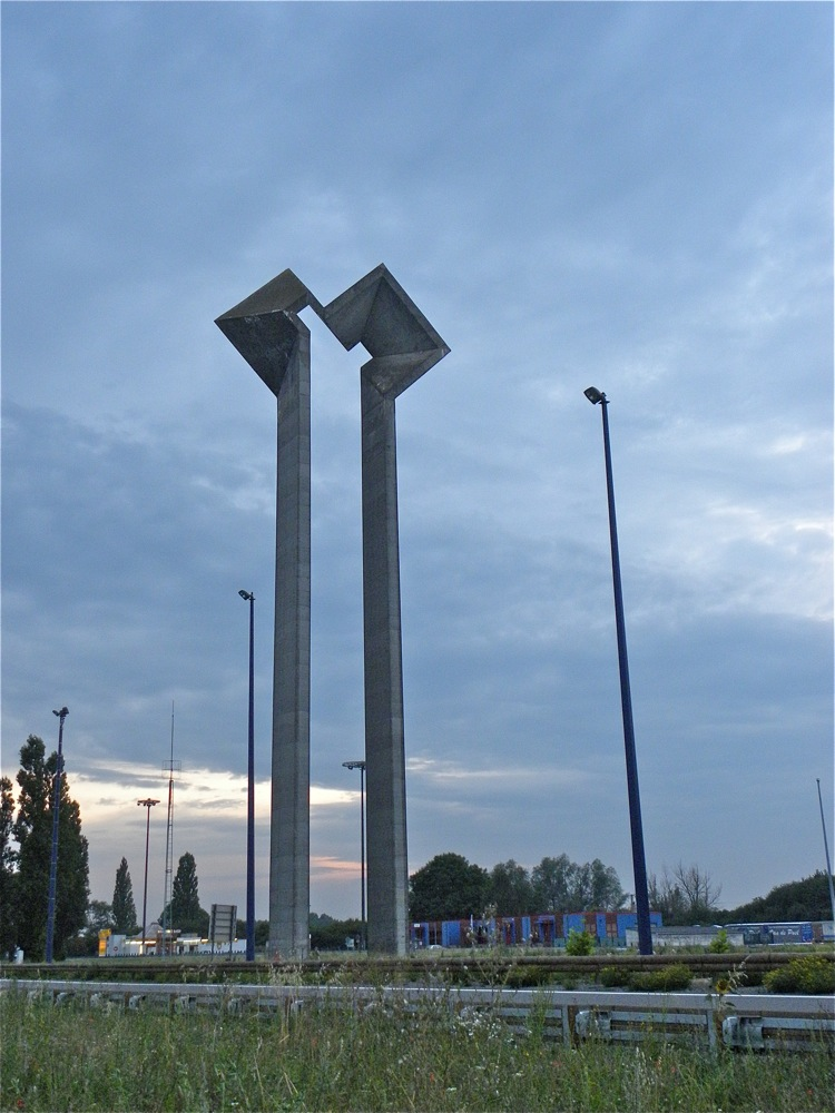 Monument on the Border of France and Belgium near Lille.